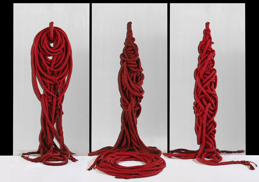 Jiménez-Balaguer Mirrors of Memory 1999